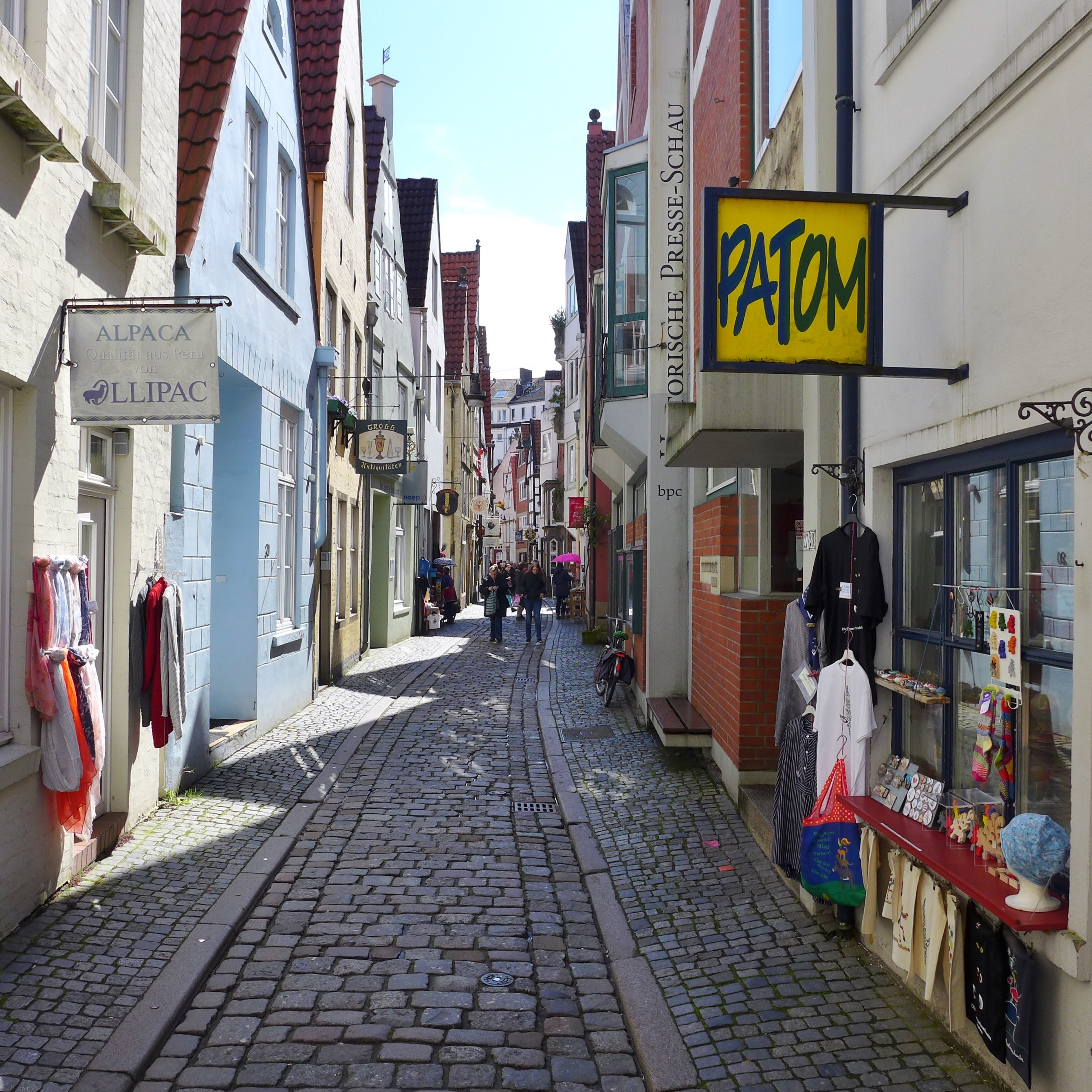 View of Schnoor, the eponymous street in the Schnoor neighbourhood of Bremen, Germany